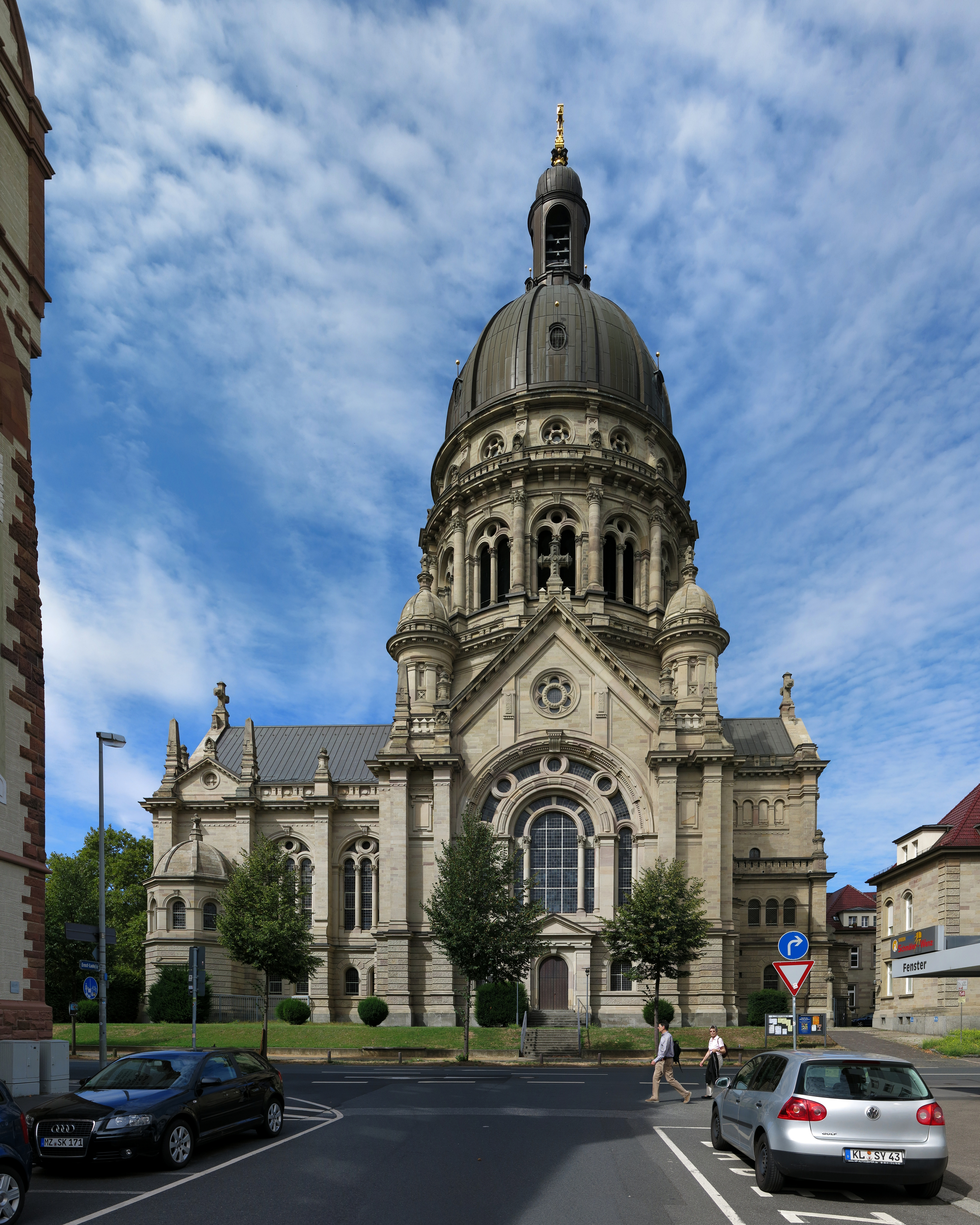 Christuskirche, Mainz seen from southeast